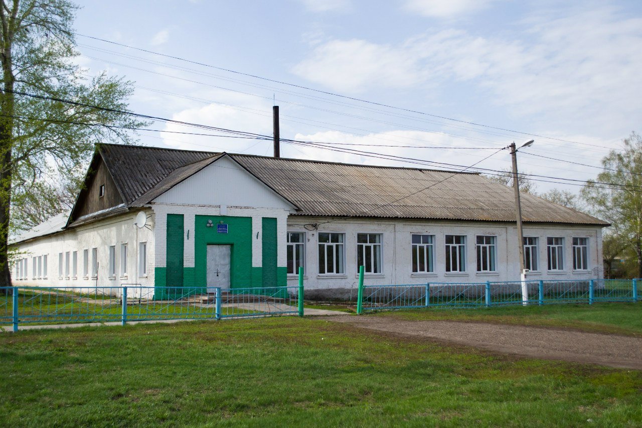 Шульгинская школа